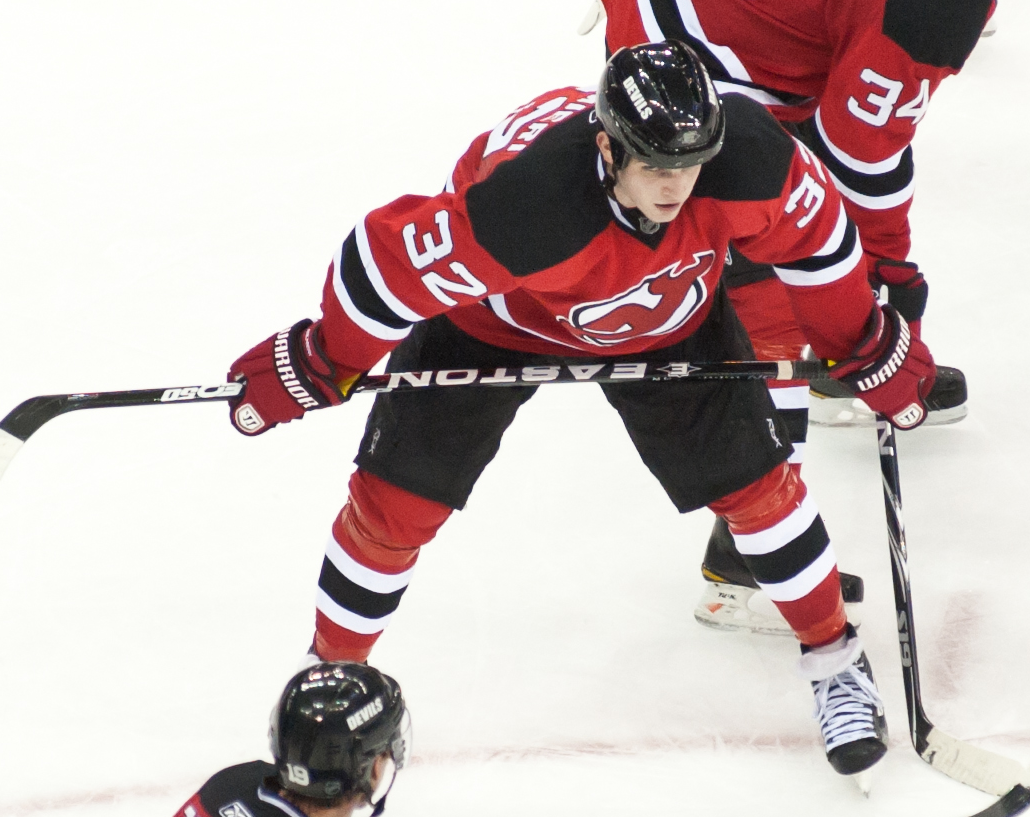 New Jersey Devils forward Nick Palmieri (#32), awaits a faceoff during a National Hockey League game against the Toronto Maple Leafs on April 6, 2011.